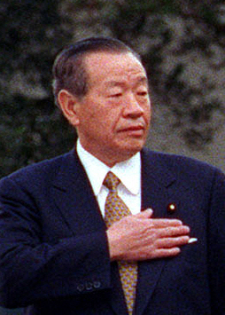 Hosei Norota